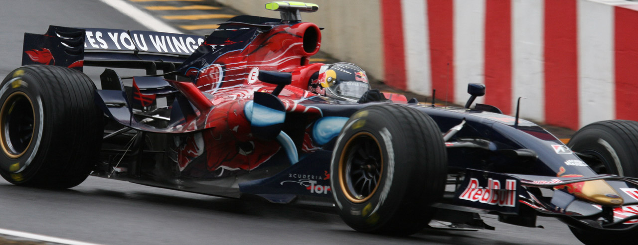 Formula One 2007 Rd.17 Brazilian GP: Sebastian Vettel (Toro Rosso) at the free practice 1 on Friday